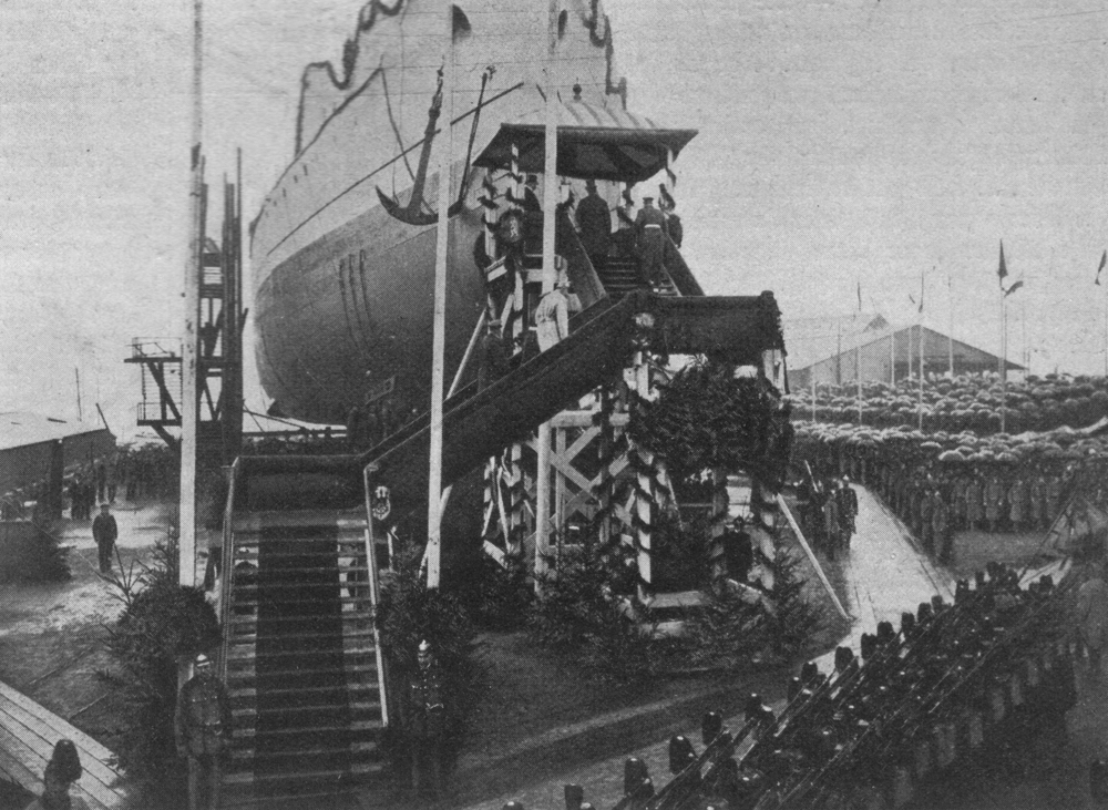 The launching of SMS Braunschweig.